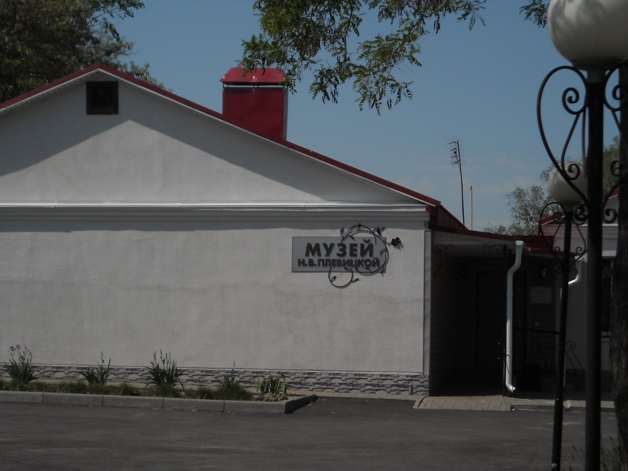 Museum of Plevitskaya in Vinnikovo, Kursk oblast